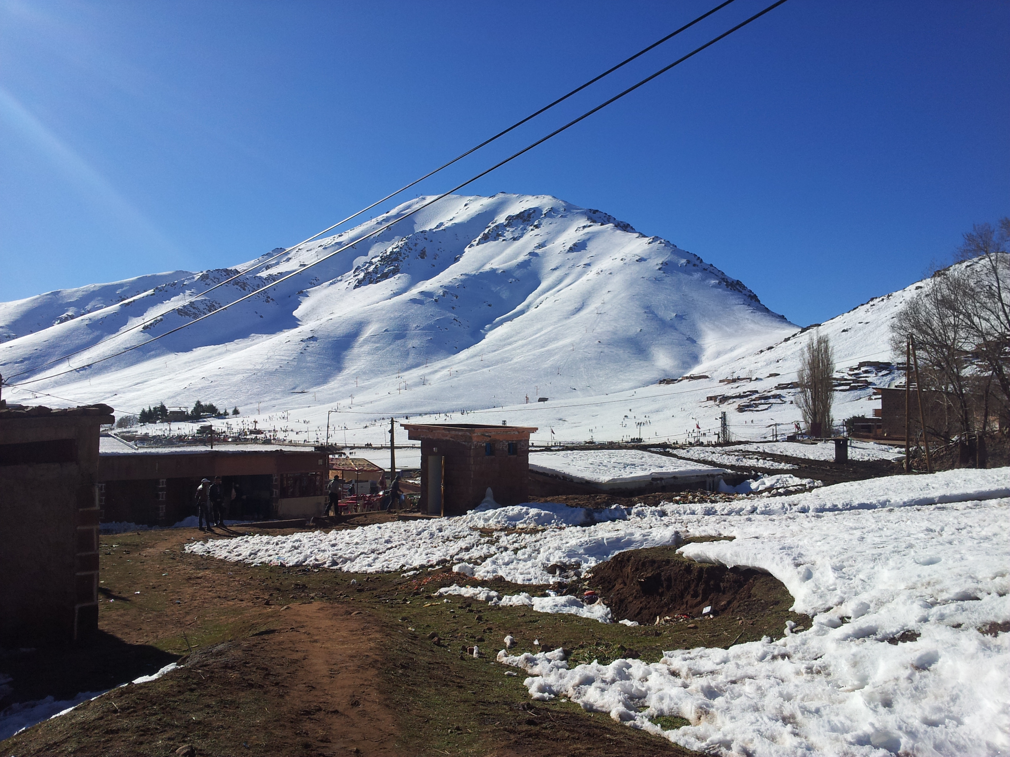 Marrakech Oukaimden